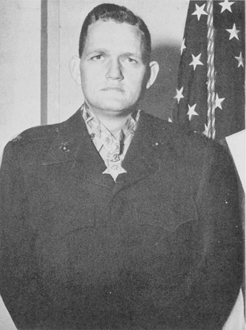 Louis H. Wilson, USMC, Medal of Honor recipient. Wilson would later become the 26th Commandant of the Marine Corps.